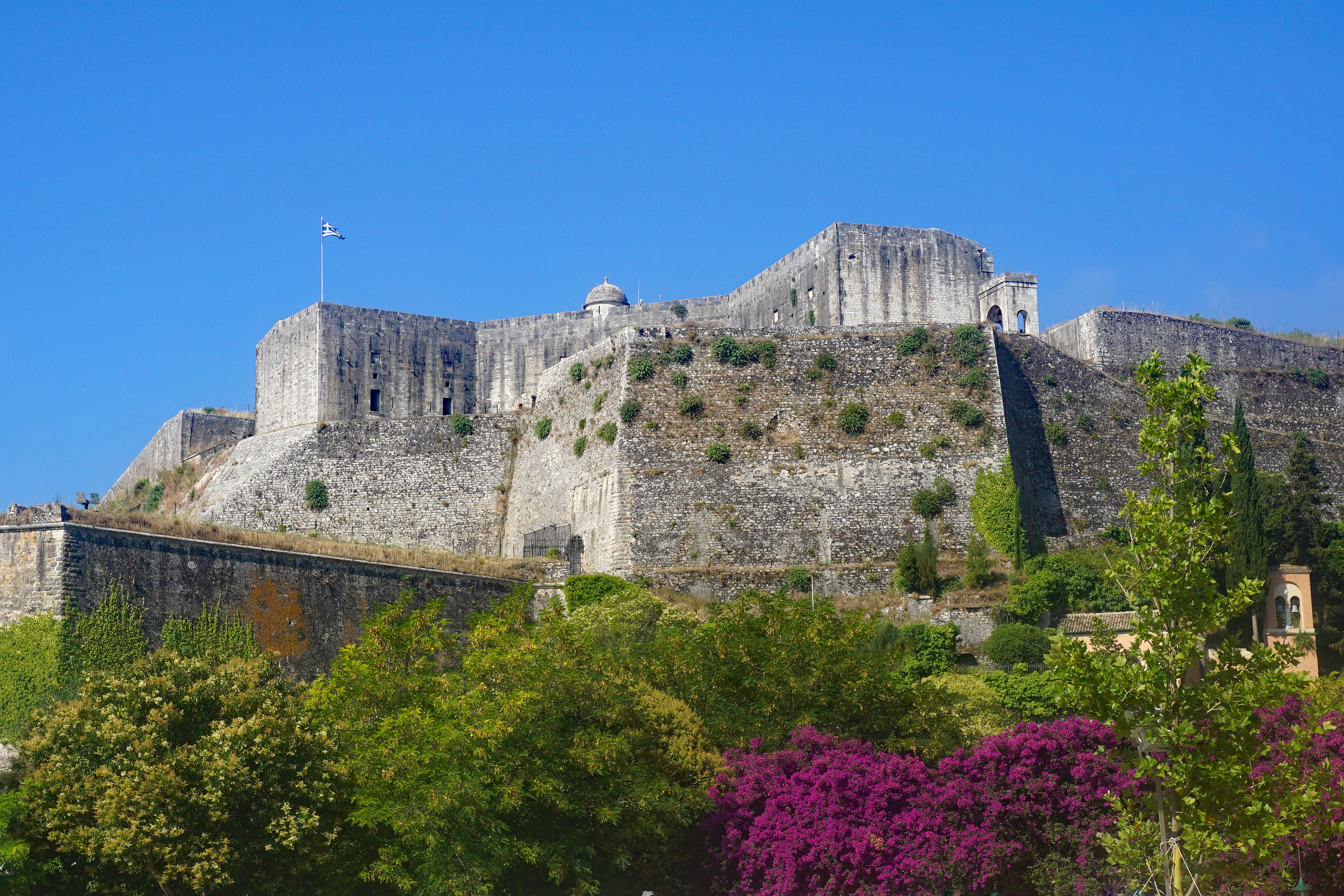 New Venetian Fortress, Corfu, Greece.